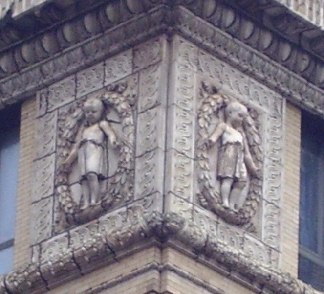 A detail from the facade of 295 Park Avenue South at 23rd Street in the Flatiron District of Manhattan, New York City, built in 1892 as the headquarters of the New York Society for the Prevention of Cruelty to Children. The bulding was designed by Renwick, Aspinwall & Renwick, and was converted to rental apartments in 1982 by Abi Kalimian. (Source: [1])